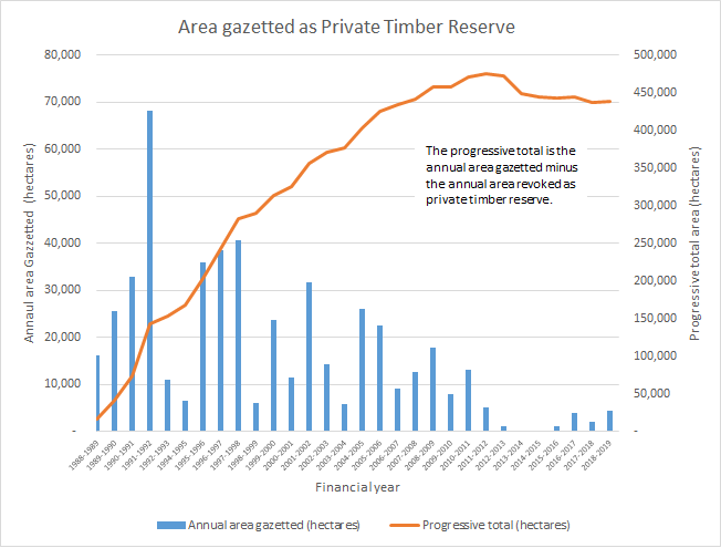 Chart of area declared as private timber reserve in Tasmania, Australia. Updated to June 30 2019.